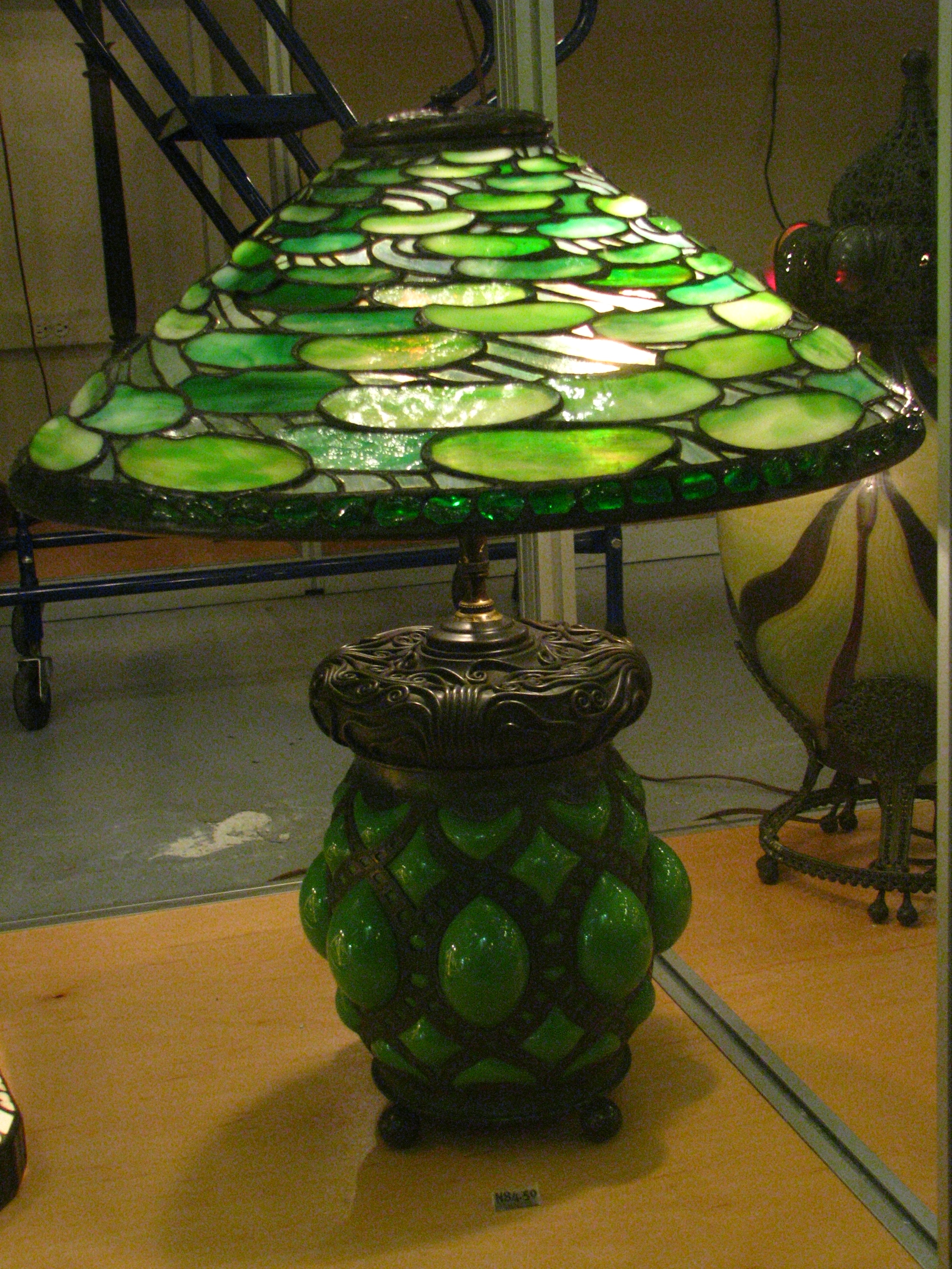 Tiffany Studios, Table lamp, c. 1900-1906. Gift of Dr. Egon Neustadt. New-York Historical Society, N84.50. Wikipedia Loves Art at the New-York Historical Society This photo of item # N84.50 at the New-York Historical Society was contributed under the team name "the_adverse_possessors" as part of the Wikipedia Loves Art project in February 2009. New-York Historical Society The original photograph on Flickr was taken by _cck_—please add a comment to the original Flickr page whenever a use has been made on Wikipedia or another project. Project galleries on Flickr: this institution, this team